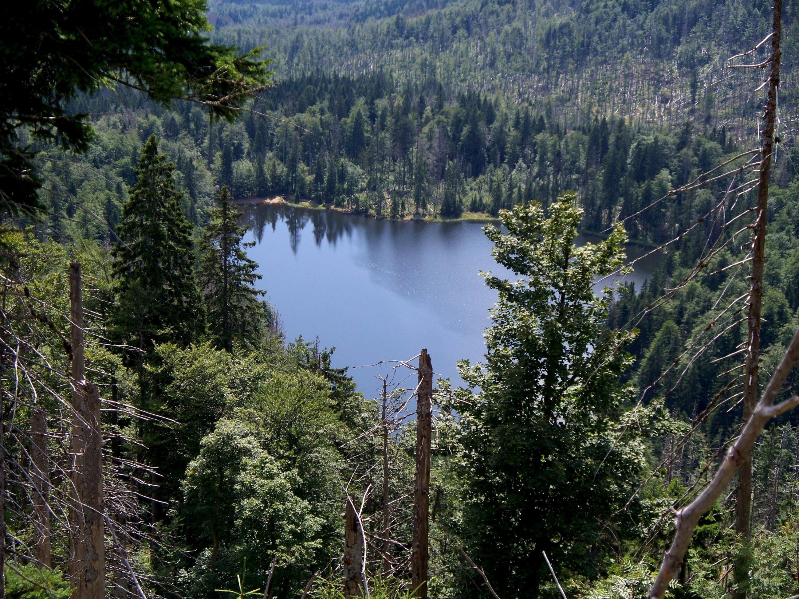 The Rachelsee in August 2010.